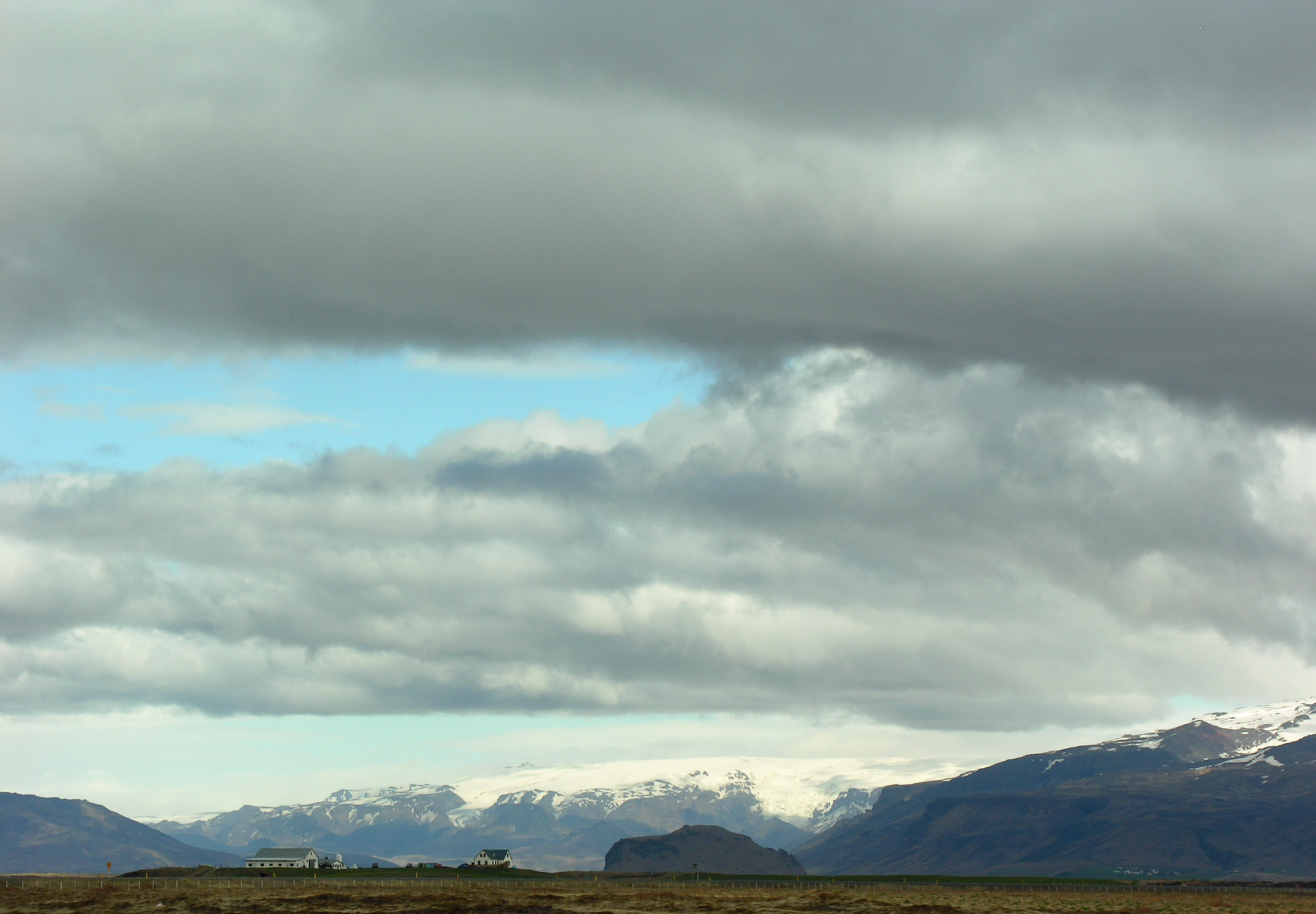 Iceland, Approaching Selfoss on Hringvegur